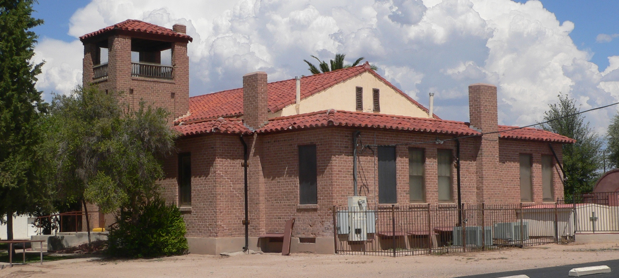 First Presbyterian Church, located at 225 E. Butte Avenue in Florence, Arizona; seen from the southwest.